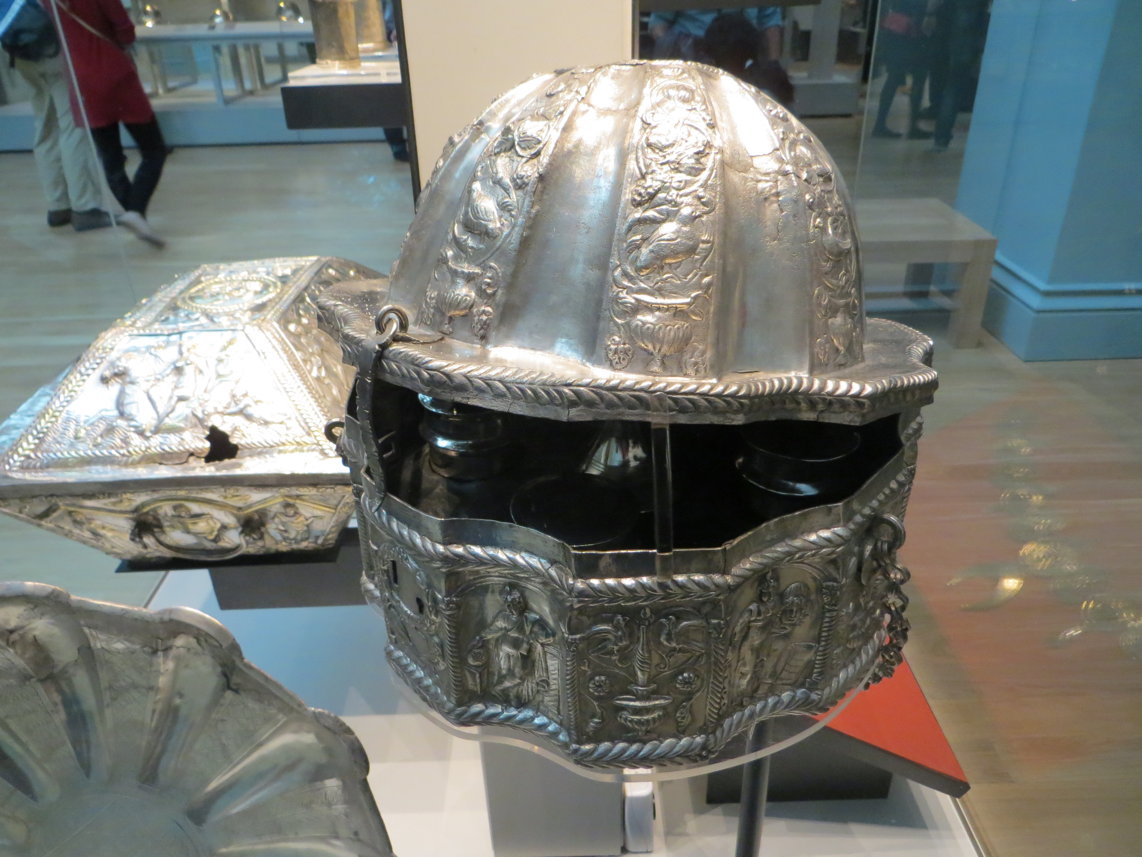 Casket from the Esquiline Treasure in the British Museum